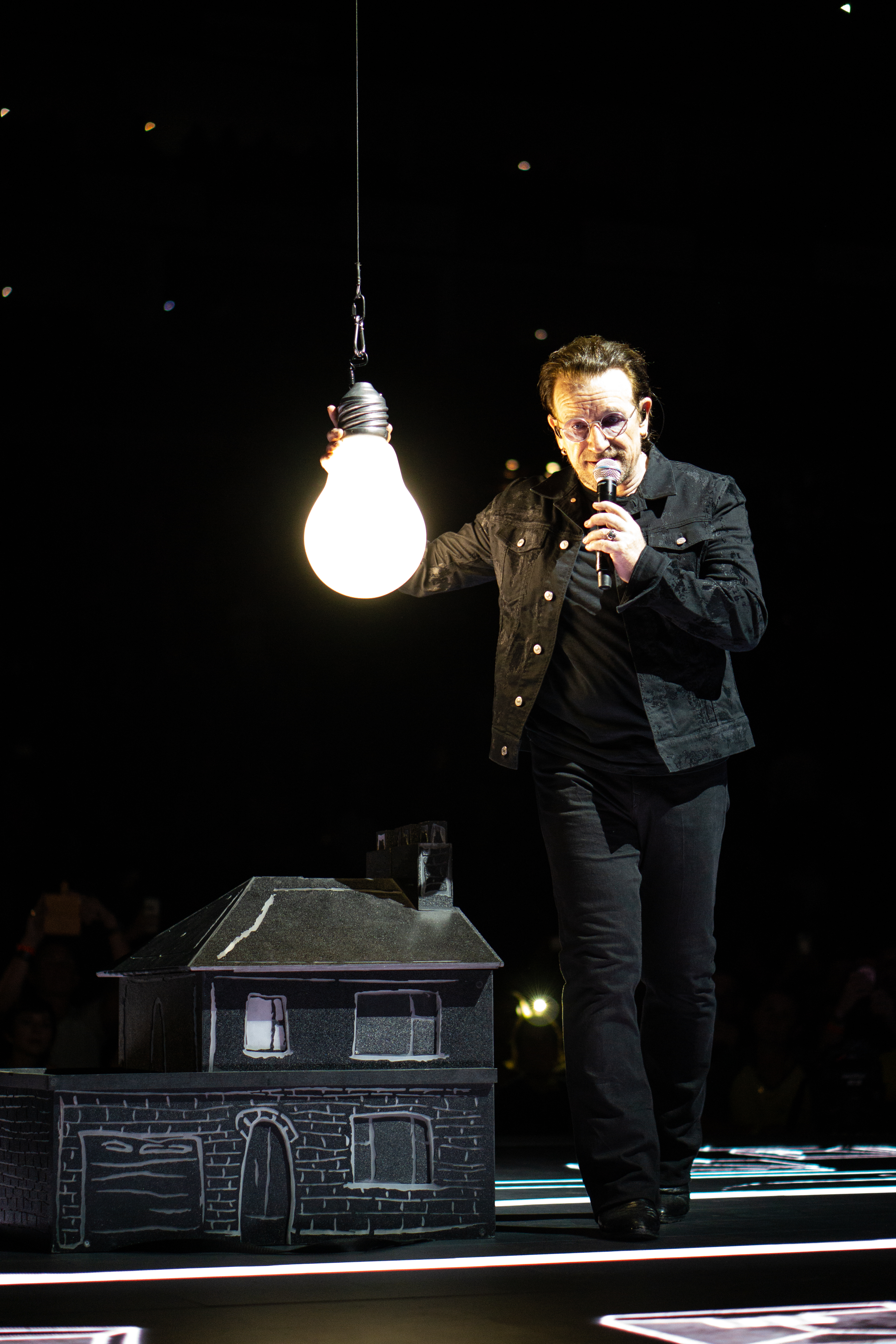 U2 lead singer Bono holding a swinging light bulb prop and standing above a replica of his childhood home during a performance of the song "13 (There is a Light)" on the Experience + Innocence Tour during an October 13, 2018 concert at The O2 in London, England